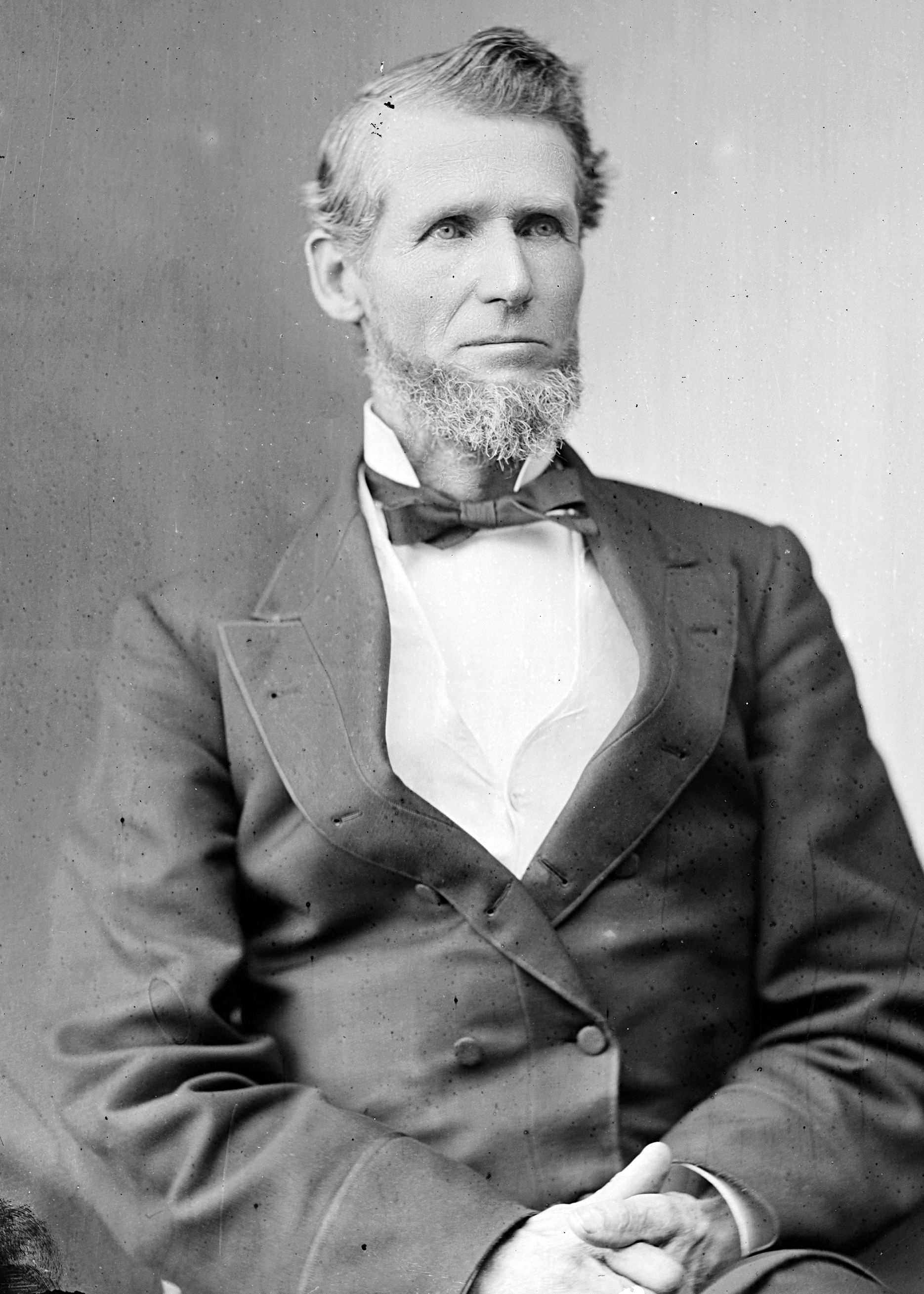 Morgan Ringland Wise, US Representative from Pennsylvania